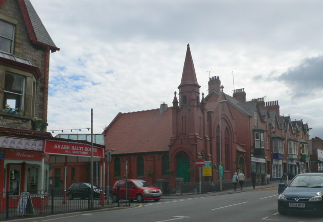 English Baptist Chapel The main road, Abergele Road, through Old Colwyn, with the English Baptist chapel on the north side.